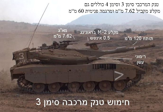 The weapons of Merkava MkIII Baz tank